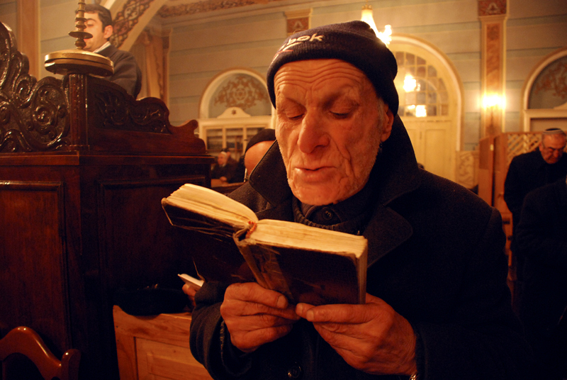 The Synagogue in Tbilisi Georgia